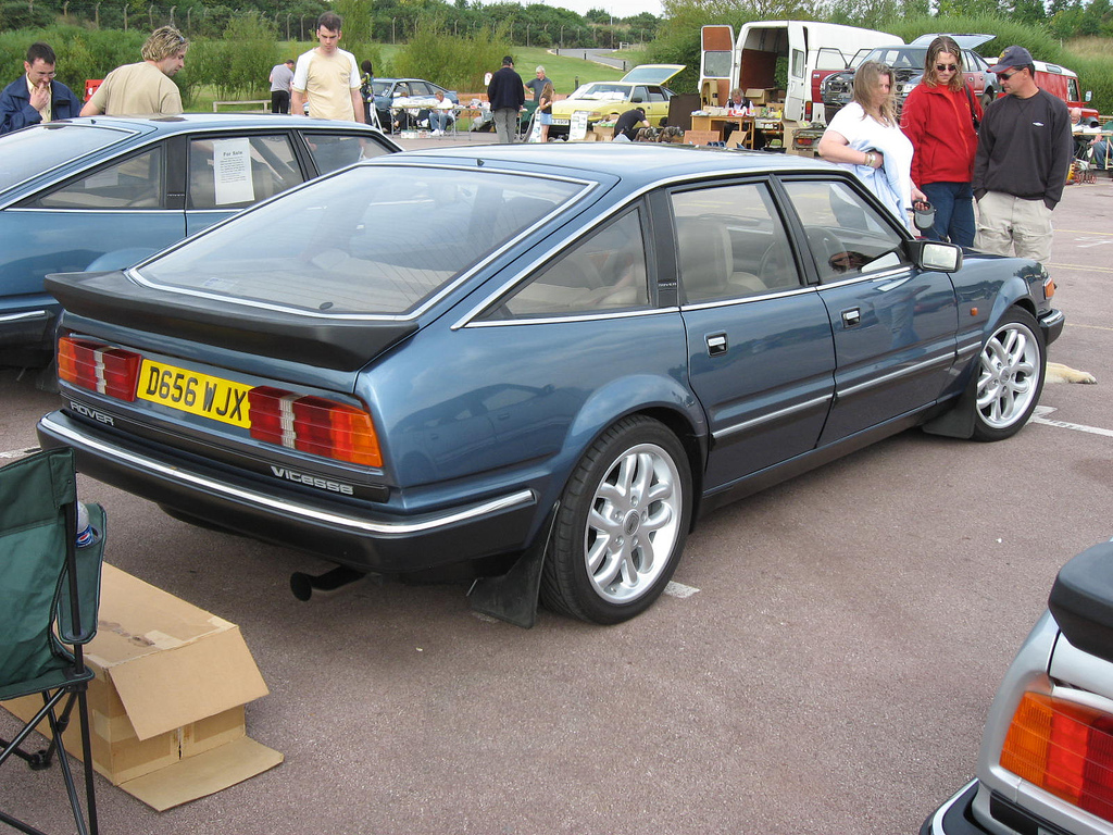 Rover sd1 club day at the British motoring heritage museum gaydon .